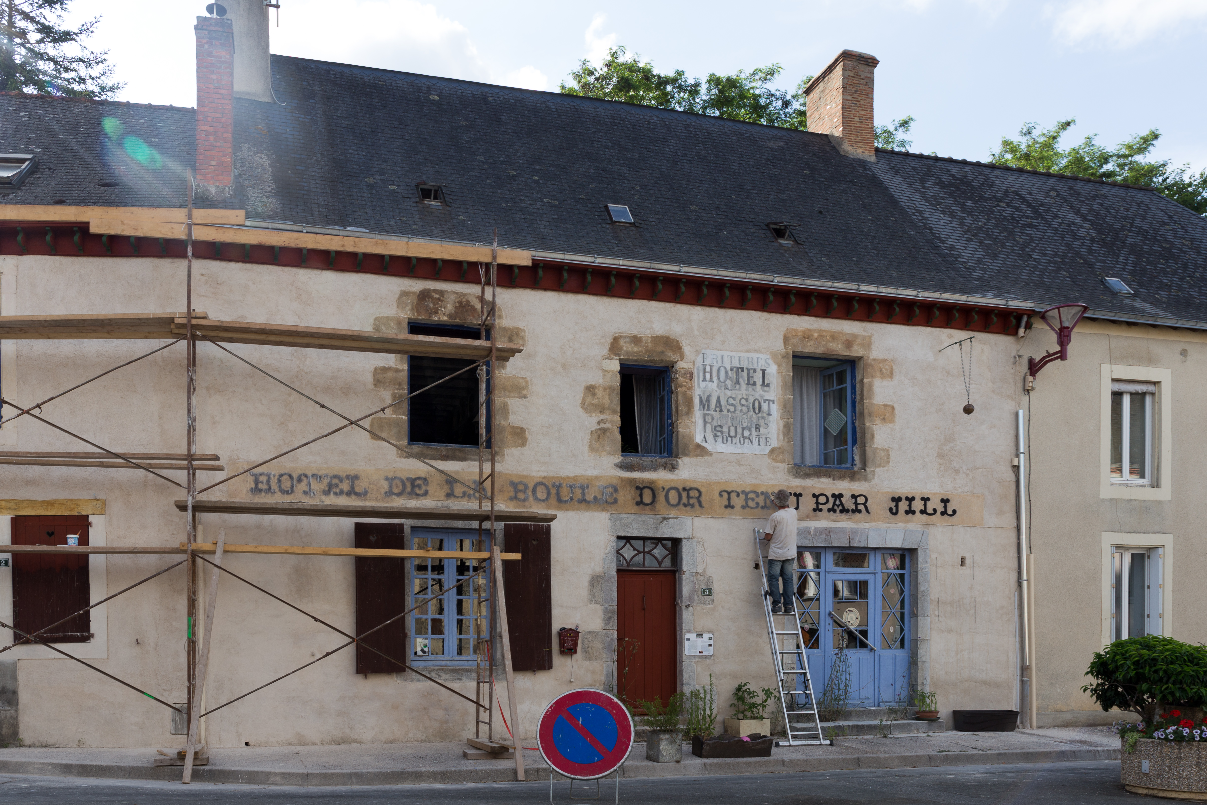 Former Hôtel de la Boule d'Or in Saint-Jean-sur-Erve, home of the canadian artist Jill Culiner.